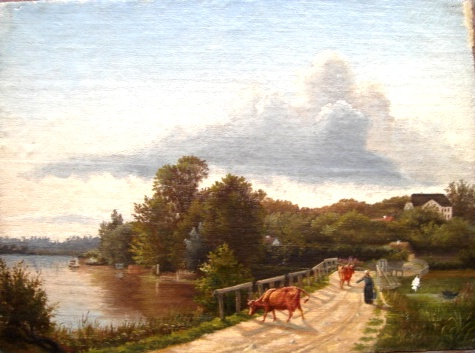 A painting of Nybrovej at Bagsværd Lake with Marienborg visible in the background. Lyngby-Taarbæk, Denmark.